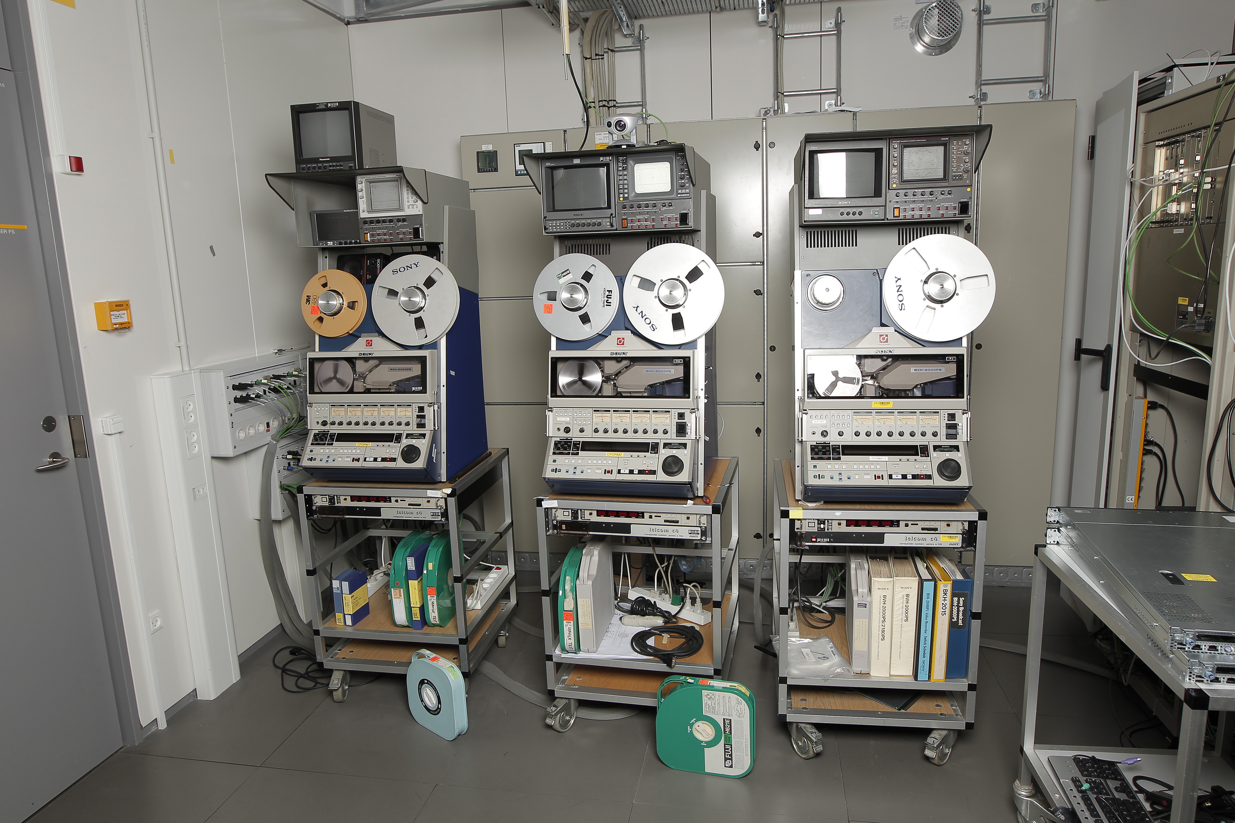 Sony BVH-2000PS Danmarks Radios arkiv af DRs Kulturarvsprojekt / The archive of the Danish Broadcasting Corporation Photos must be credited "DRs Kulturarvsprojekt"